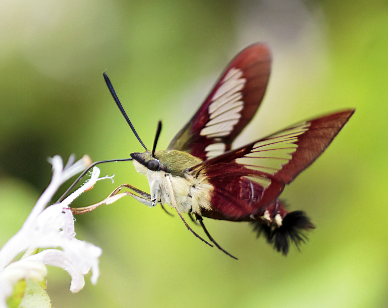 NPS | N. Lewis Hemaris thysbe (A7A0120)